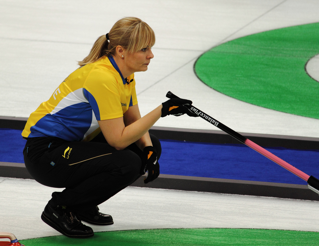 Eva Lund at the 2010 Winter Olympics in Vancouver. This photograph was taken during the 5th end in the Round Robin game between Denmark and Sweden.